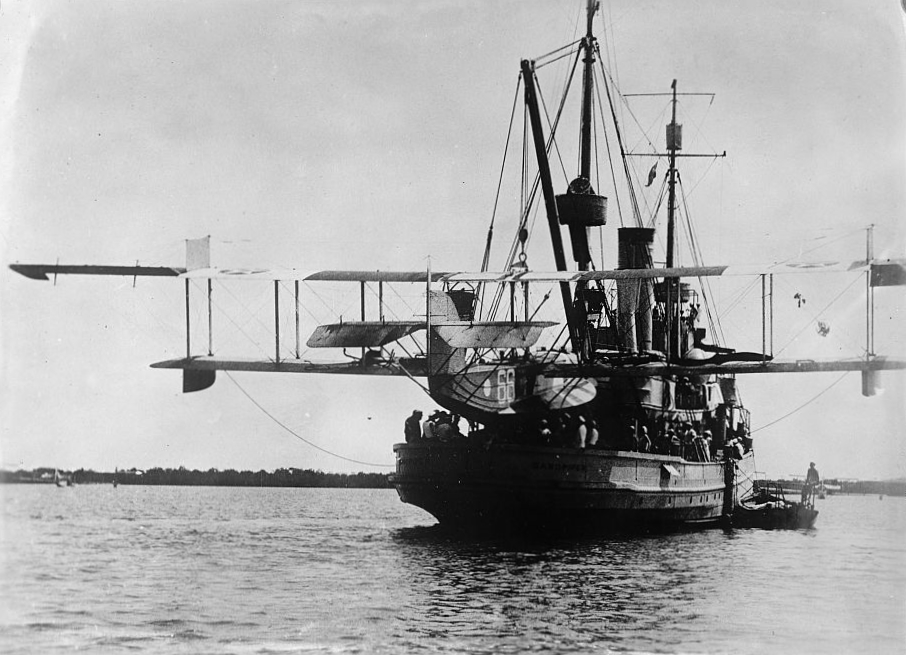 U.S.S. Sandpiper, 4/27/22